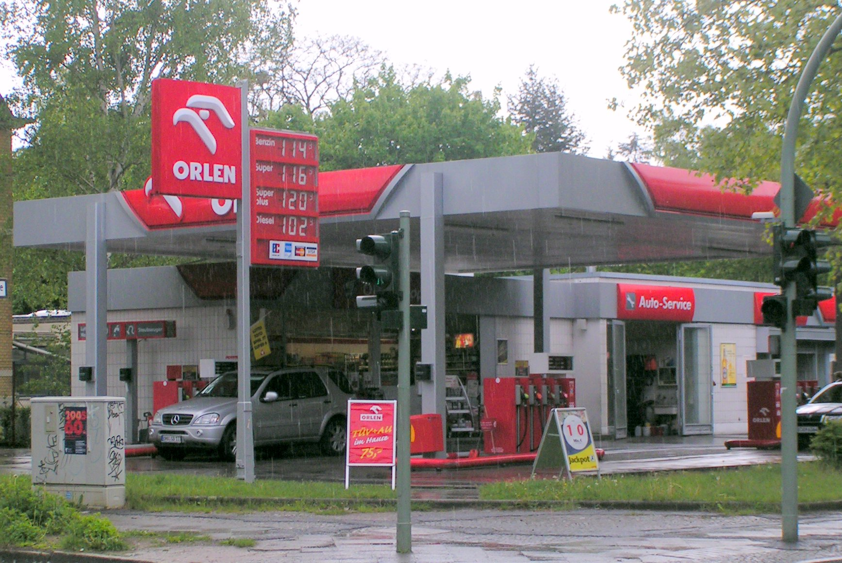 PKN Orlen petrol station in Berlin, Germany Source: taken be David Herrmann at Berlin, 11.05.2005